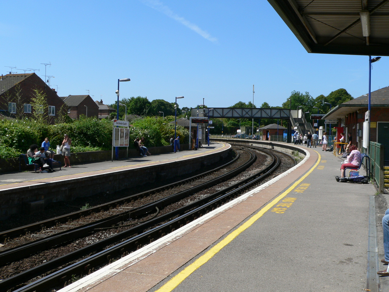 Looking west from the eastern end of platform 1 at Dorchester South railway station, the third station on the 750v DC third rail electrified Weymouth to London Waterloo South West Main Line line. Less than half a mile west of the station is the junction with the unelectrified Heart of Wessex Line from Bristol Temple Meads to Weymouth via Bath, Westbury and Dorchester West